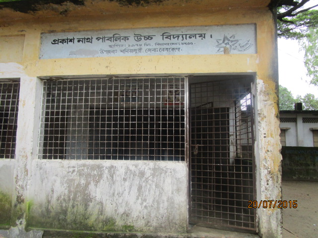 Prakash Nath Public High School at Khaliajuri Upazila